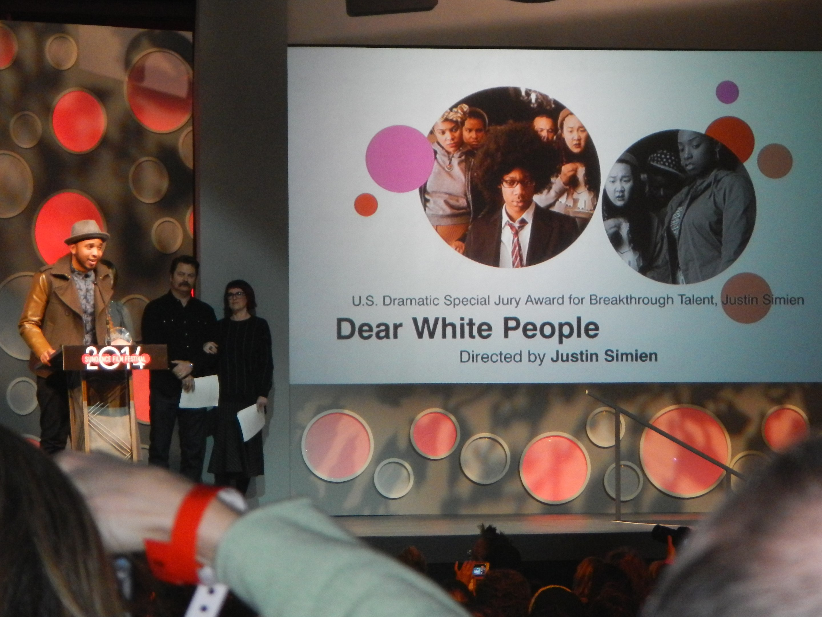 Justin Simien at the Sundance 2014 Awards Ceremony